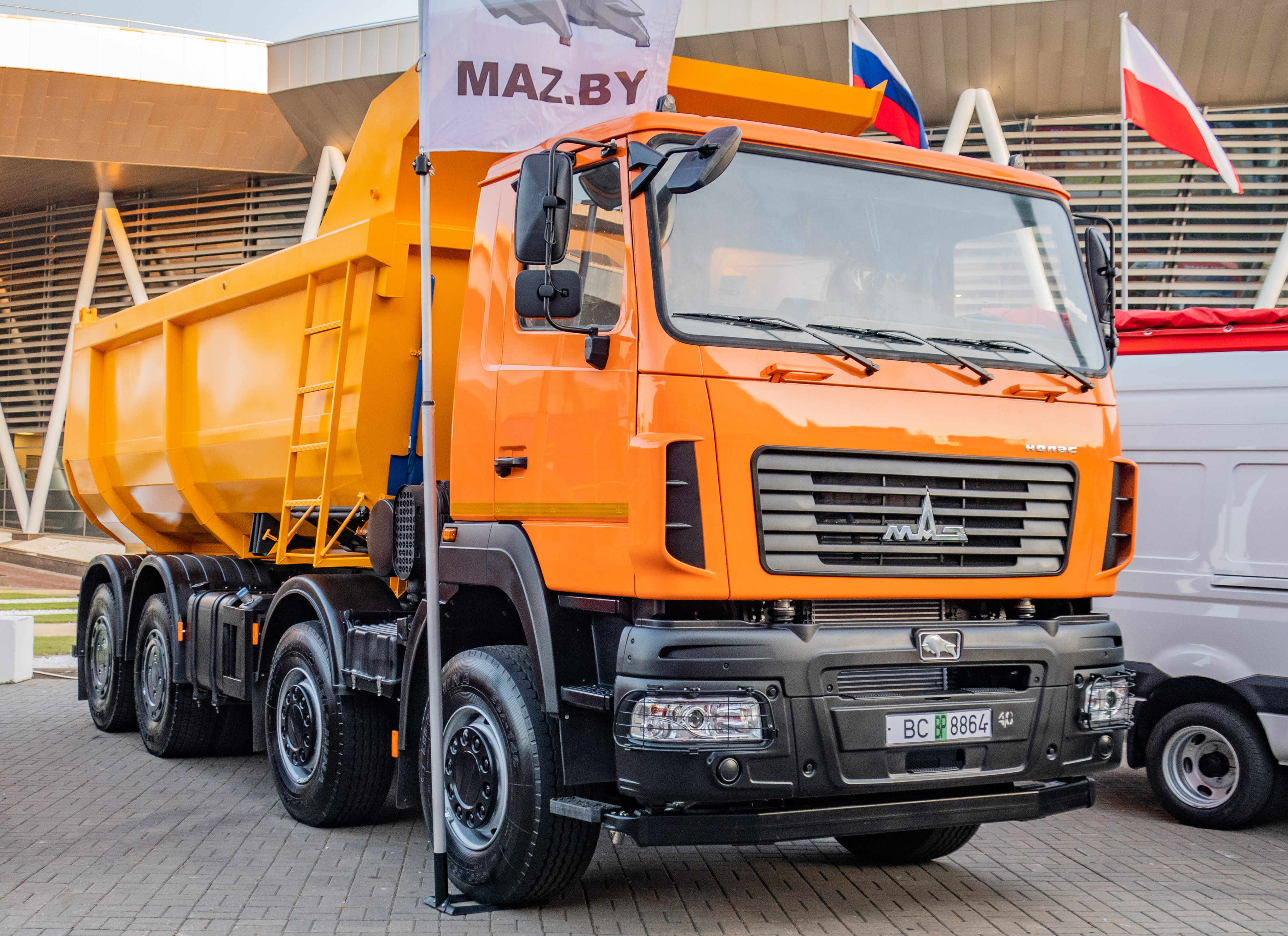 MAZ dump truck. "Budpragres-2019" exhibition, Minsk, Belarus